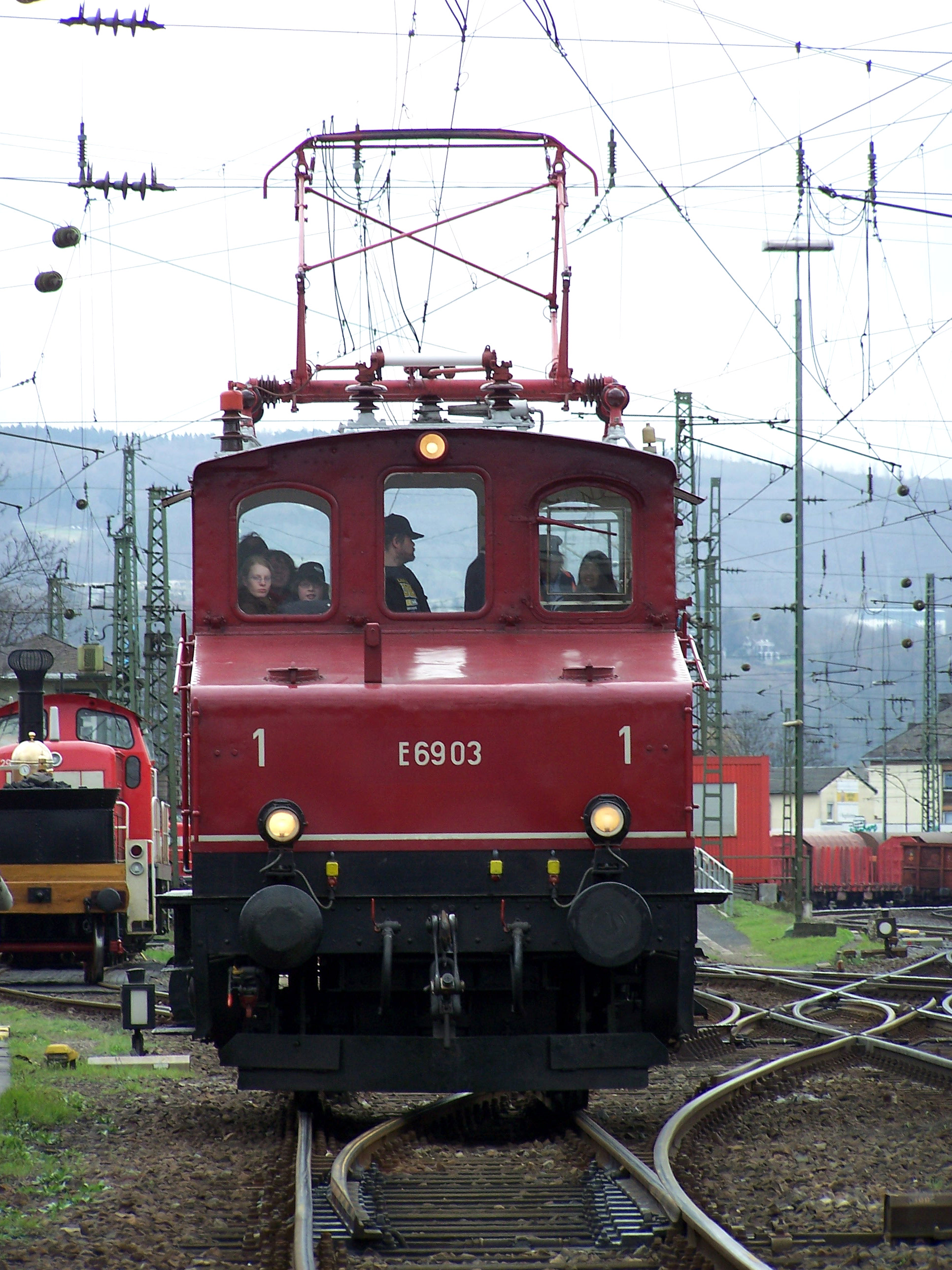 Historical DB electrical locomotive E69 03 with some guests in driver's cab at the open-air exhibition ground of the DB Museum in Koblenz-Luetzel, a local branch of the Transport Museum in Nuremberg